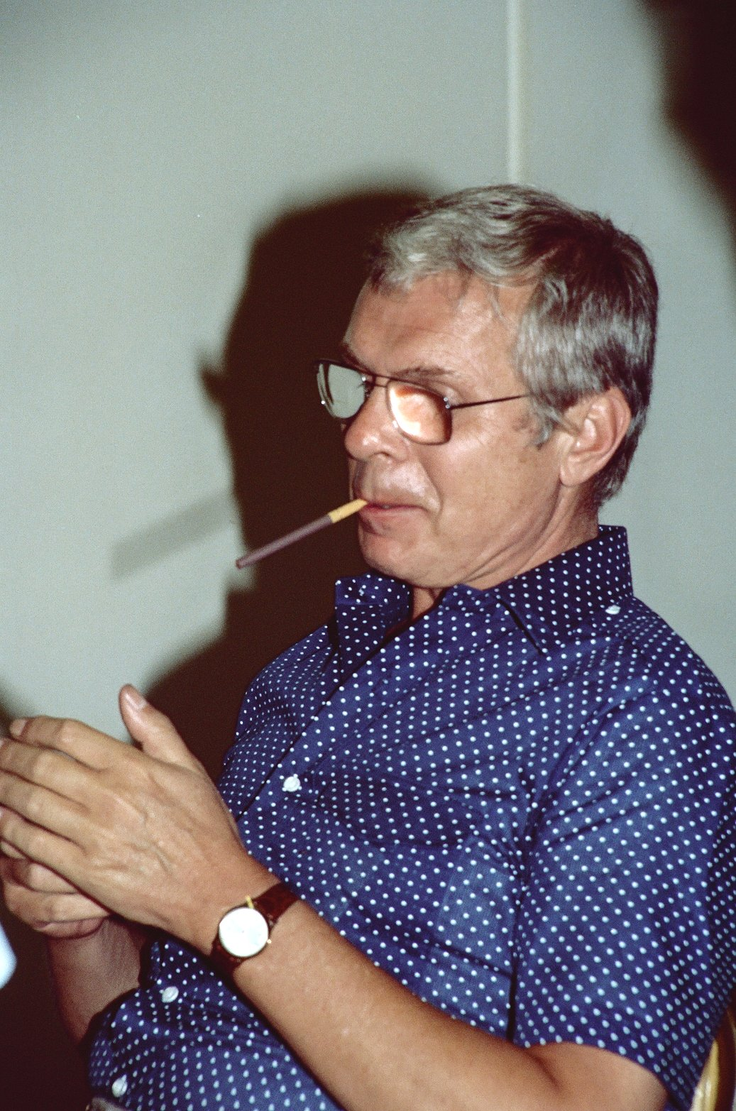 Golden age comic book artist, and comic strip artist (Mary Perkins, On Stage) Leonard Starr. NOTE: Permission granted to copy, publish, broadcast or post any of my photos, but please credit photo by Alan Light if you can. Thanks